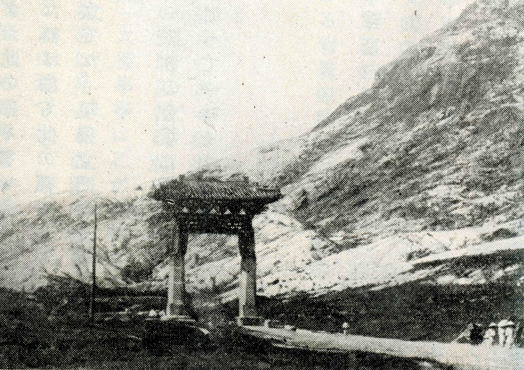 The Yeongeunmun Gate (迎恩門 lit. gate of receiving imperial favor). The bald mountain on the right was Inwang-san.